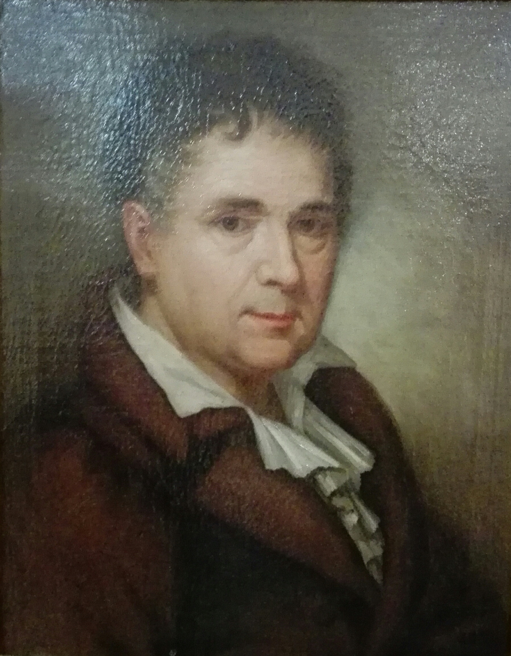 D. Francisco de Saavedra y Sangronis. (1746-1819). 56 x 44 cm. Colección Particular. Marquesado del Moscoso. Madrid.